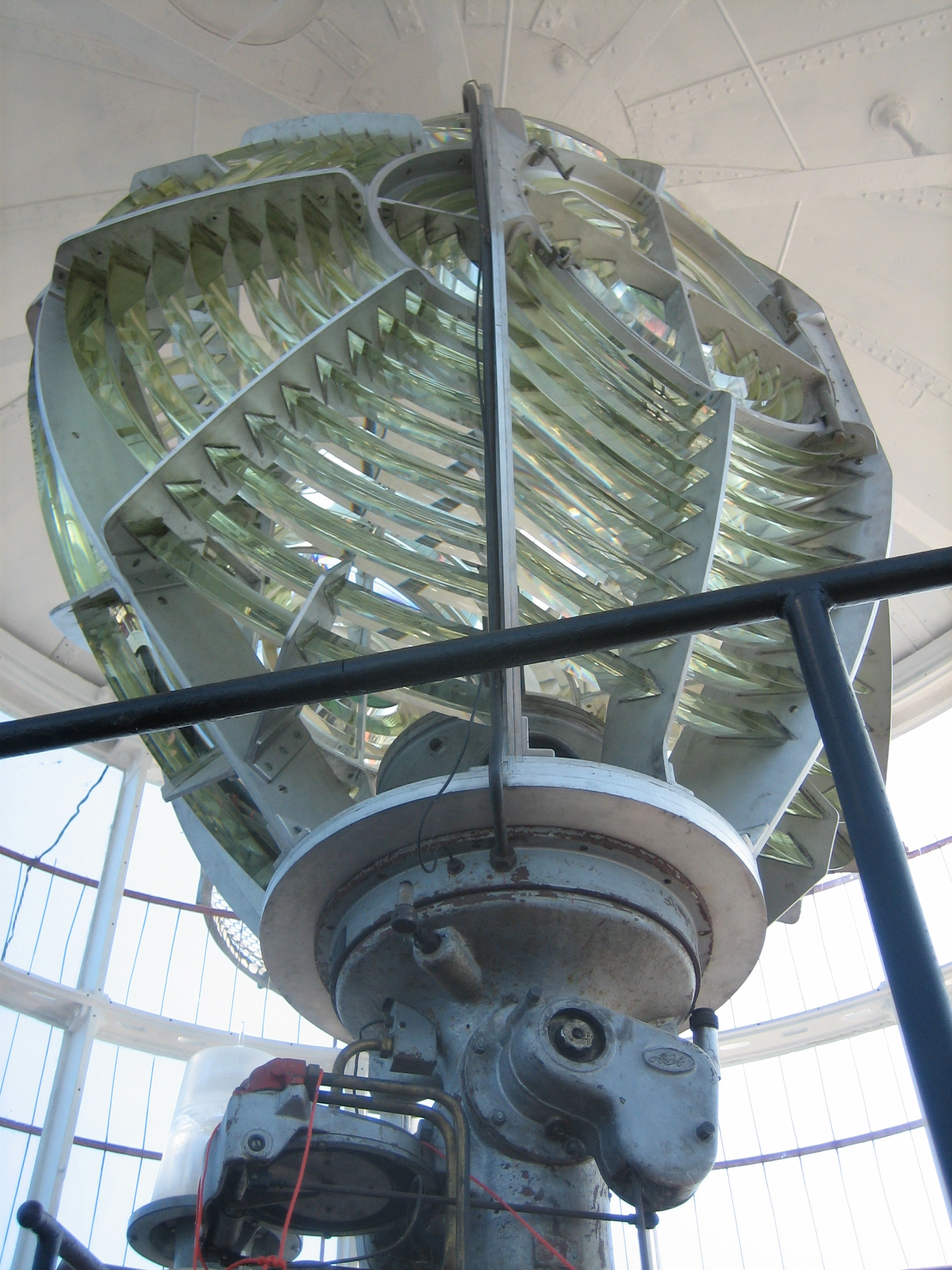 The Fresnel lens system at the Bengtskär lighthouse. The lighthouse is located in front of Hanko, Finland.